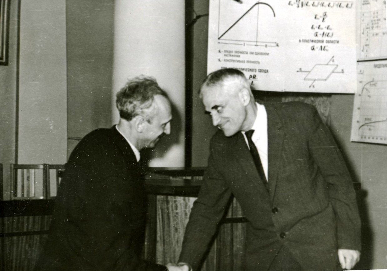 Kurkin_SA